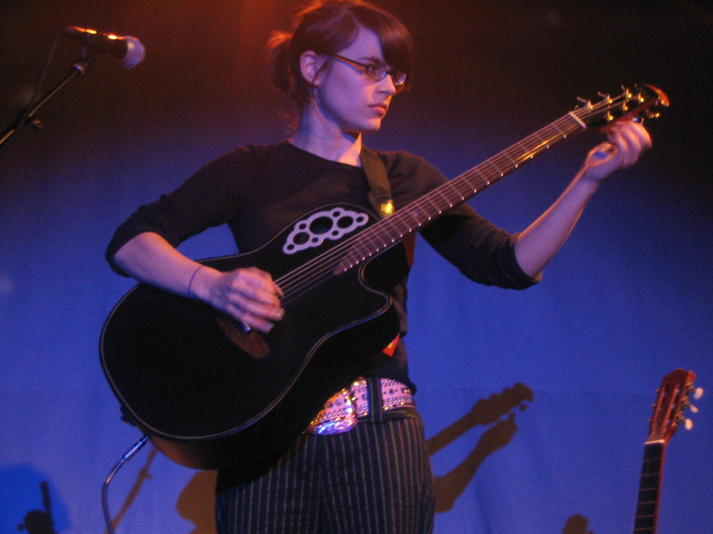 Kaki King at the Knitting factory, 2004